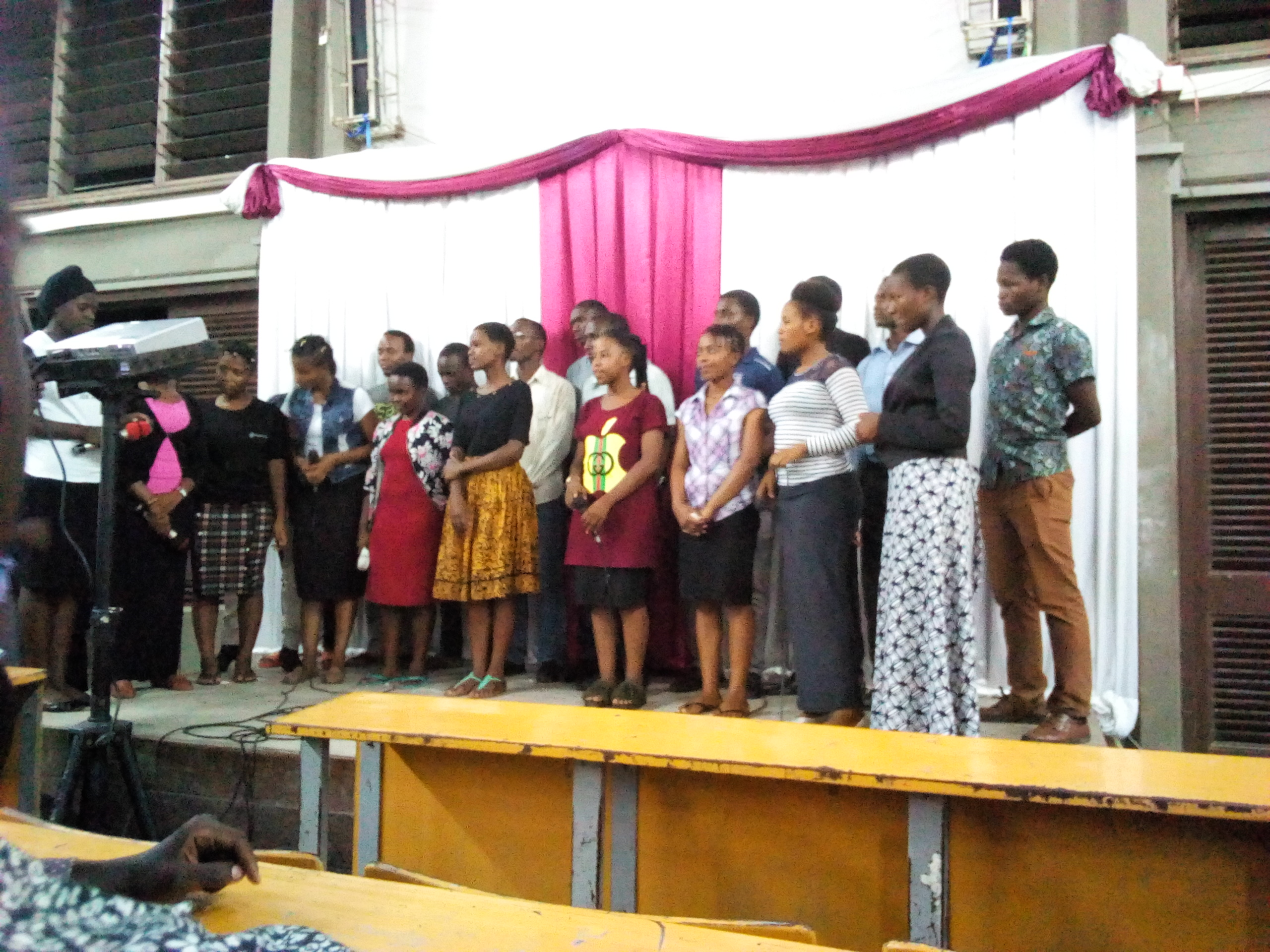 TUCASA from Tanzania This is an image with the theme "Play" from: Tanzania